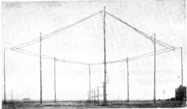 An early rhombic antenna in 1937 in Dixon, California, USA. It was built by the American Telephone and Telegraph Co. for long distance telephone service to the Far East via shortwave radio. It communicates with a station in Shanghai, China, 6100 miles away. The antenna consists of two parallel wires strung in the shape of a rhombus from telephone poles. It is fed from the near end and terminated by a transmission line at the far end.